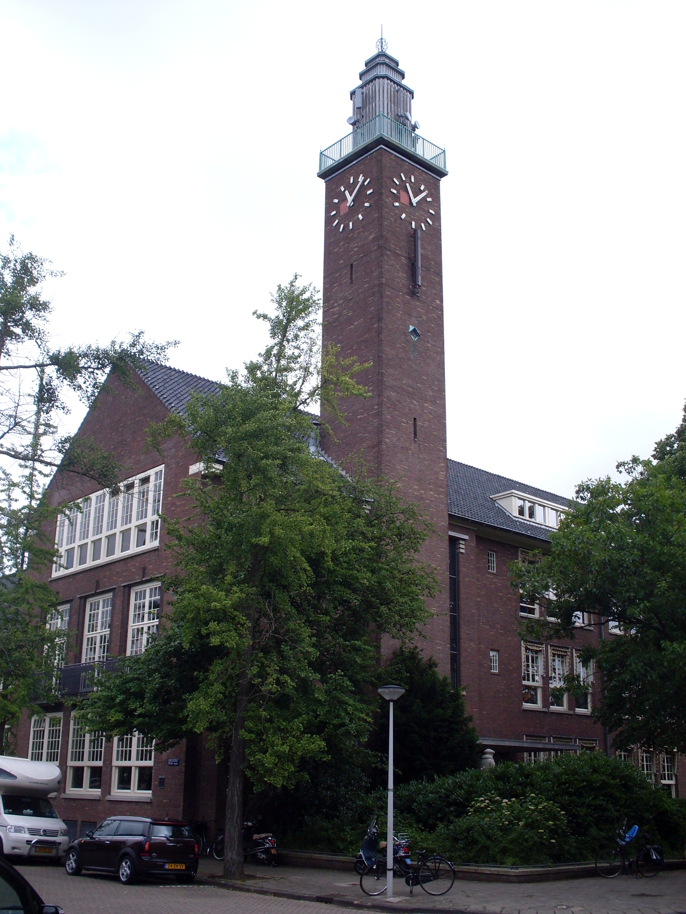 Vossiusgymnasium, Amsterdam.